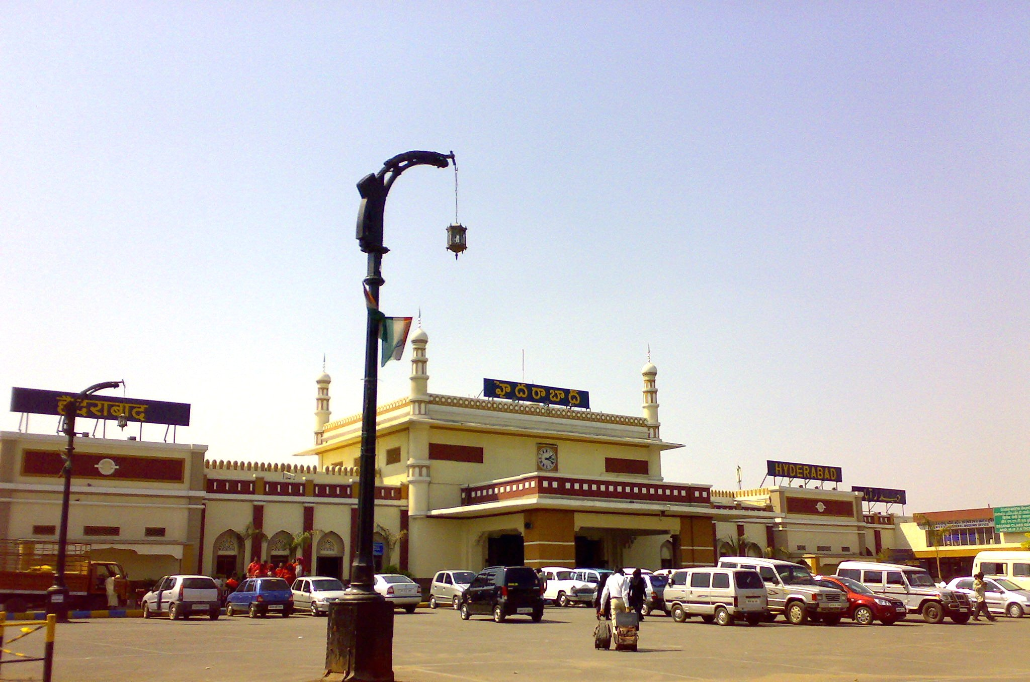 This image shows the Railway station at Nampally, Hyderabad. self-photographed.